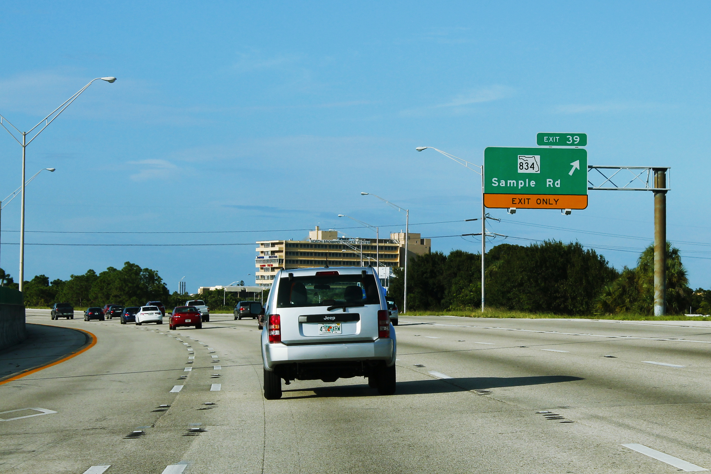 Sample Road exit on I-95 northbound.